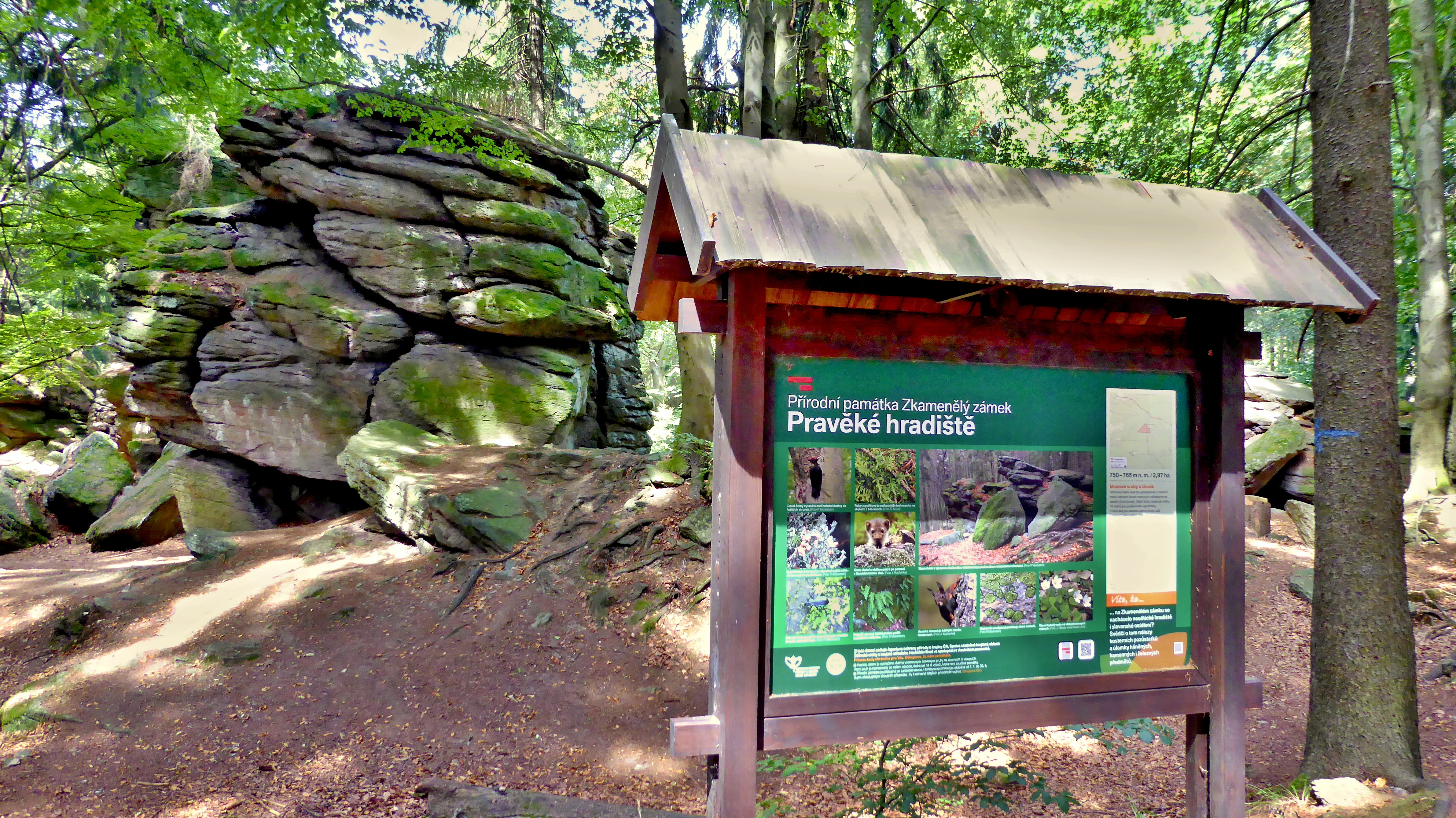 Rock group called Petrified Chateau, natural monument of Žďár Hills. Information board of the Administration of Protected Landscape Area "Žďárské" Hills on the top of the ridge (approx. 752 m above sea level), from the tourist route of the Czech Tourist Club (blue mark). On the left is a part of the rock wall (rock block Cabinet). Photo-location: Czechia, Vysočina Region, the town of Svratka, a group of rocks called Petrified Chateau (azimuth 358°).